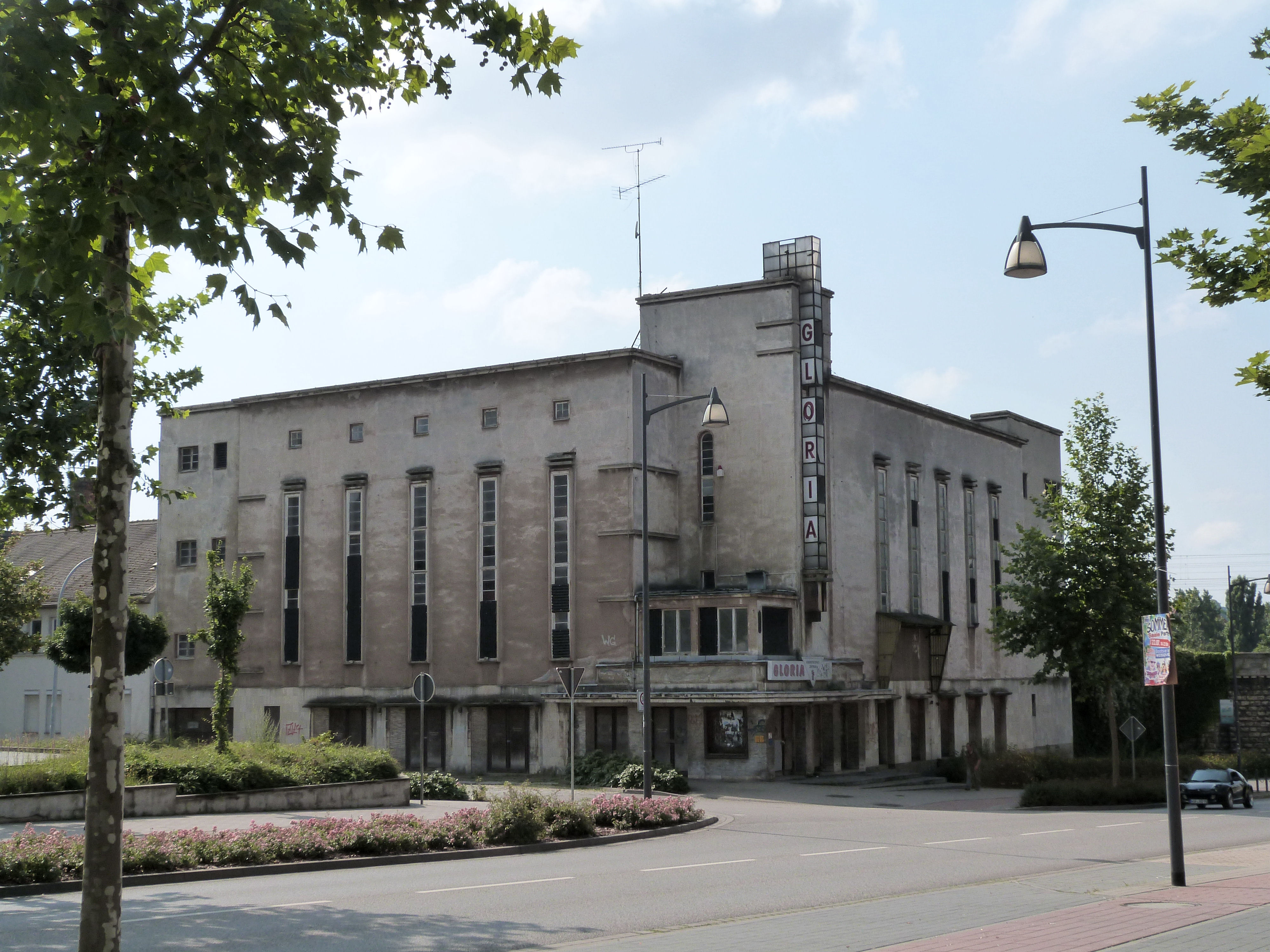 Former movie theatre Filmpalast Gloria, built in 1928, Merseburger Strasse No. 3, Weissenfels